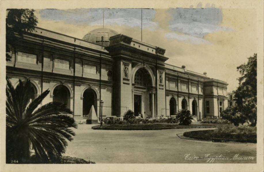 Postcard of the Egyptian Museum